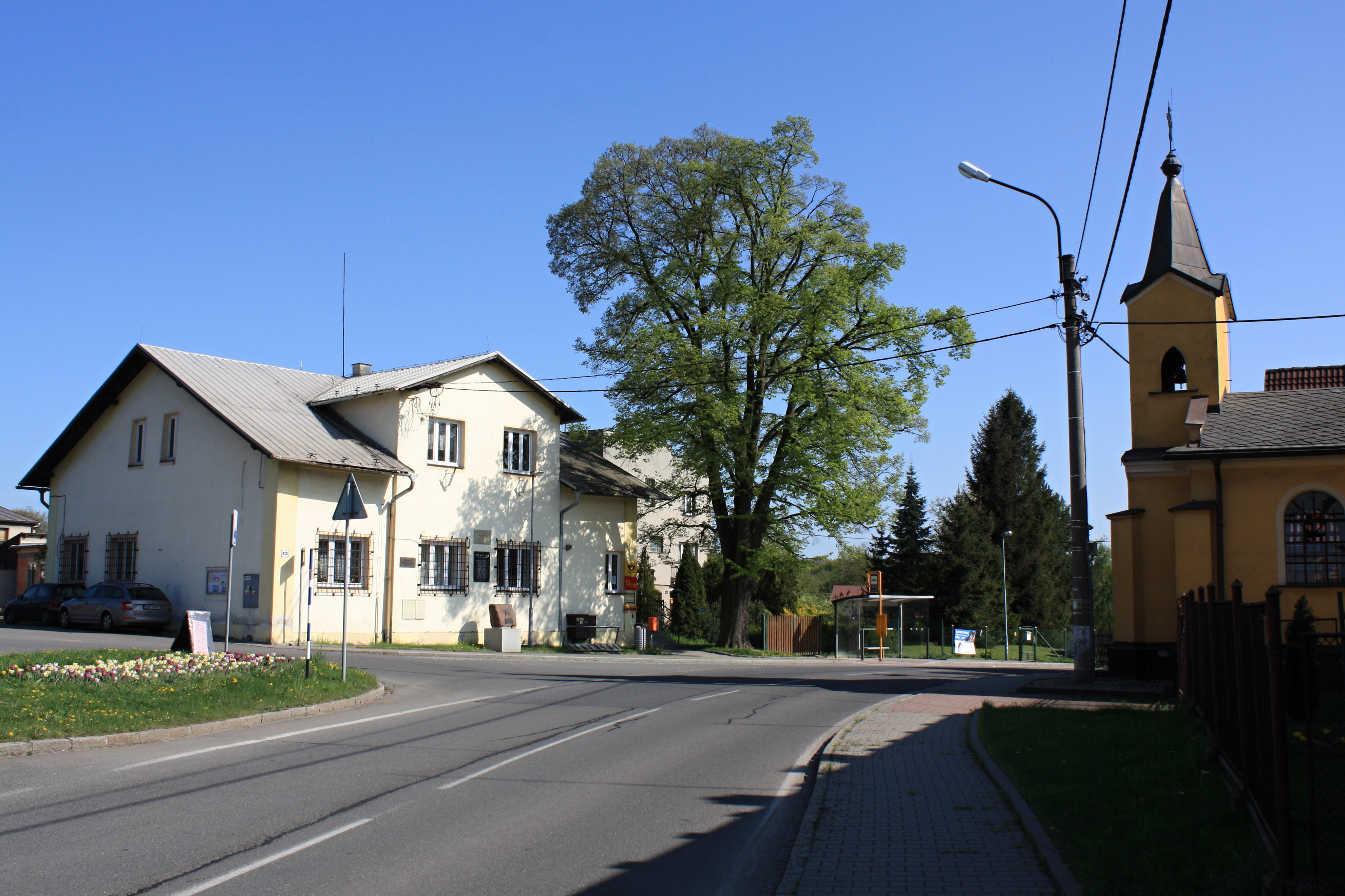 Municipality Záblátí in the town Bohumín, Karviná District, Moravian-Silesian Region, Czech Republic